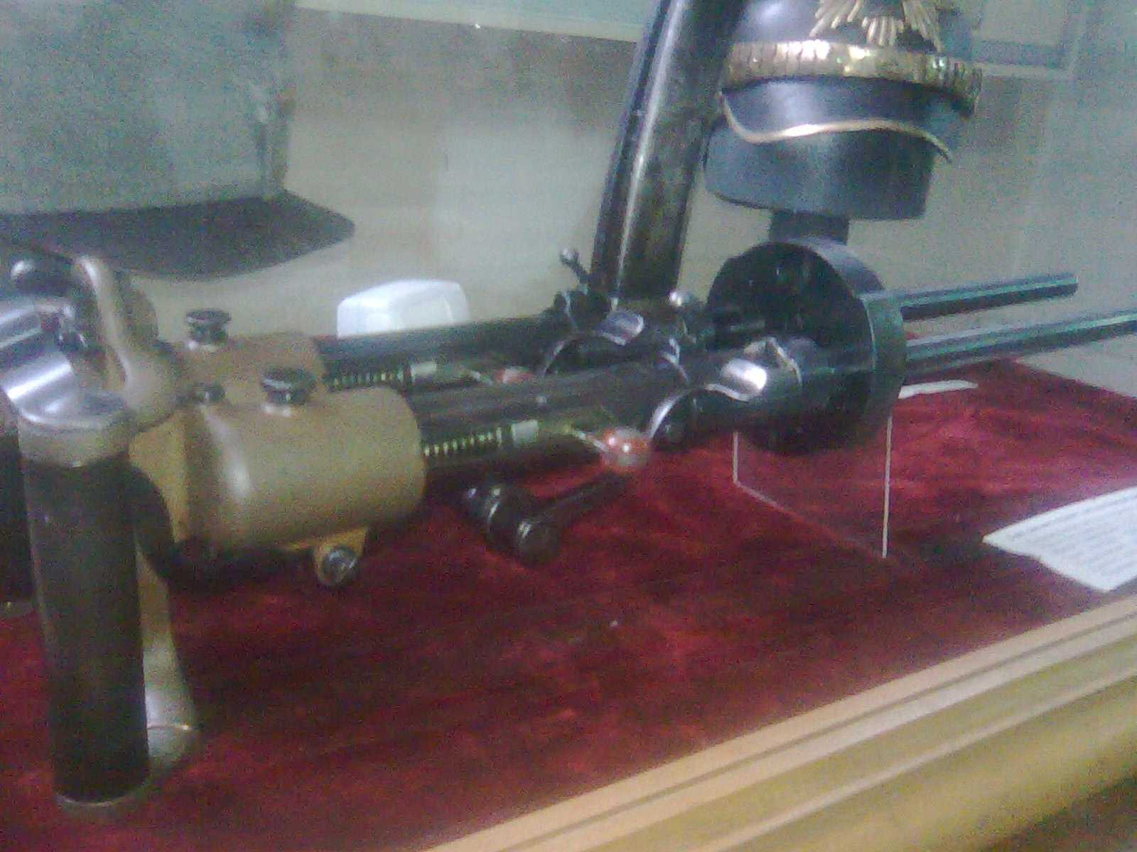 Villar-Perosa SMG photo